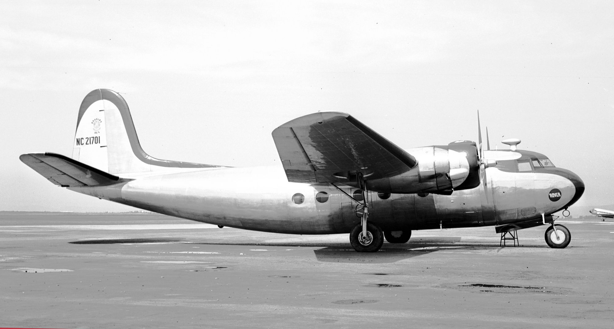 William E. Boeing's personal plane "Rover" at Oakland in April 1941.